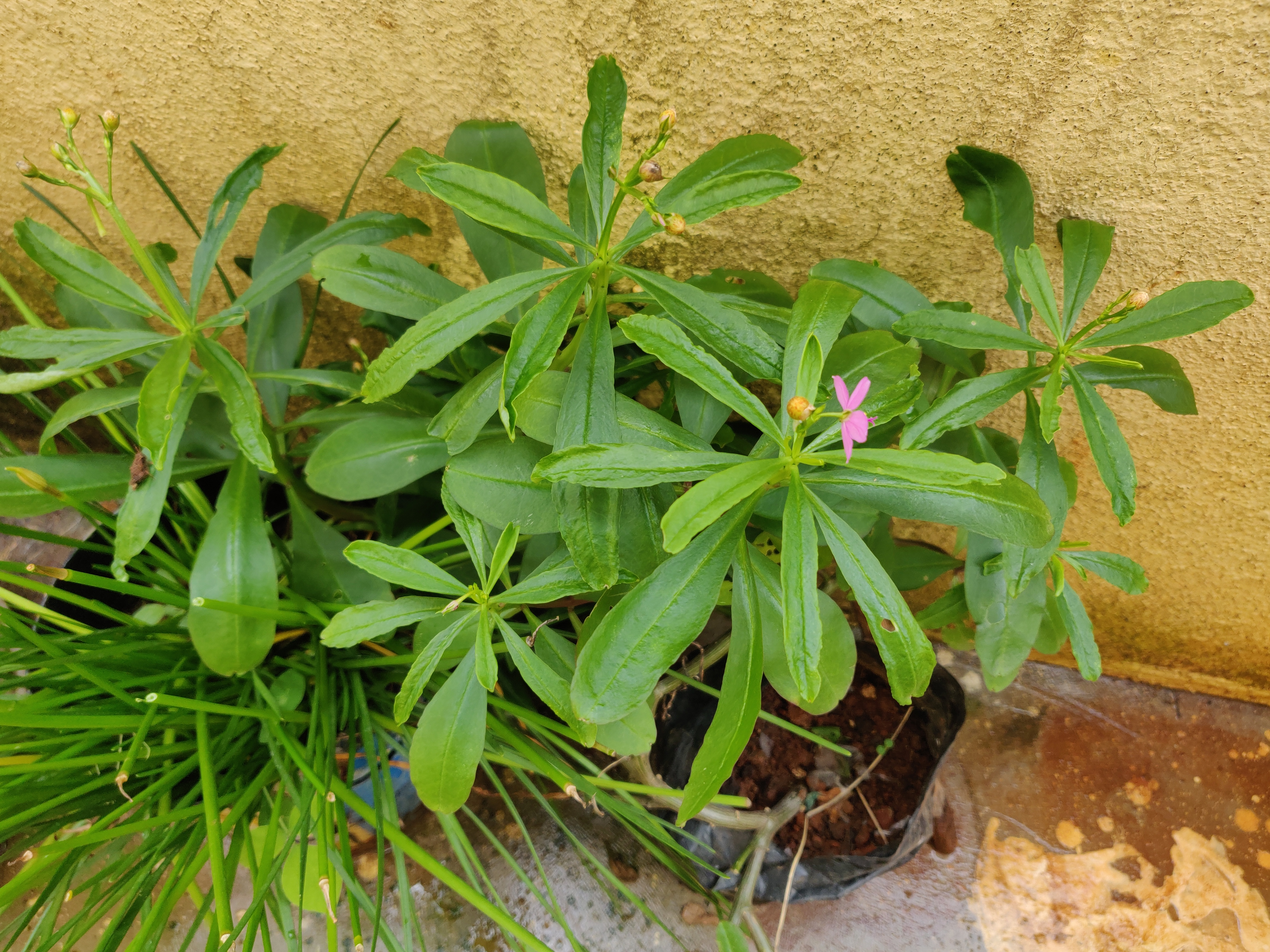 Photo of the plant Talinum fruticosum ಕನ್ನಡ: ನೆಲಬಸಳೆ ಸಸ್ಯದ ಫೋಟೋ